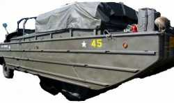 A military DUKW.